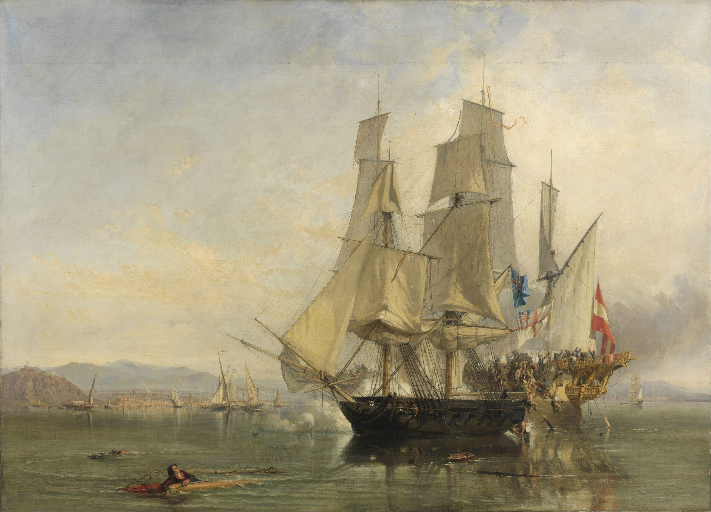 Painting depicting the capture of the Spanish xebec frigate El Gamo in 1801 off the coast of Barcelona by the Royal Navy brig HMS Speedy commanded by Thomas Cochrane, 10th Earl of Dundonald